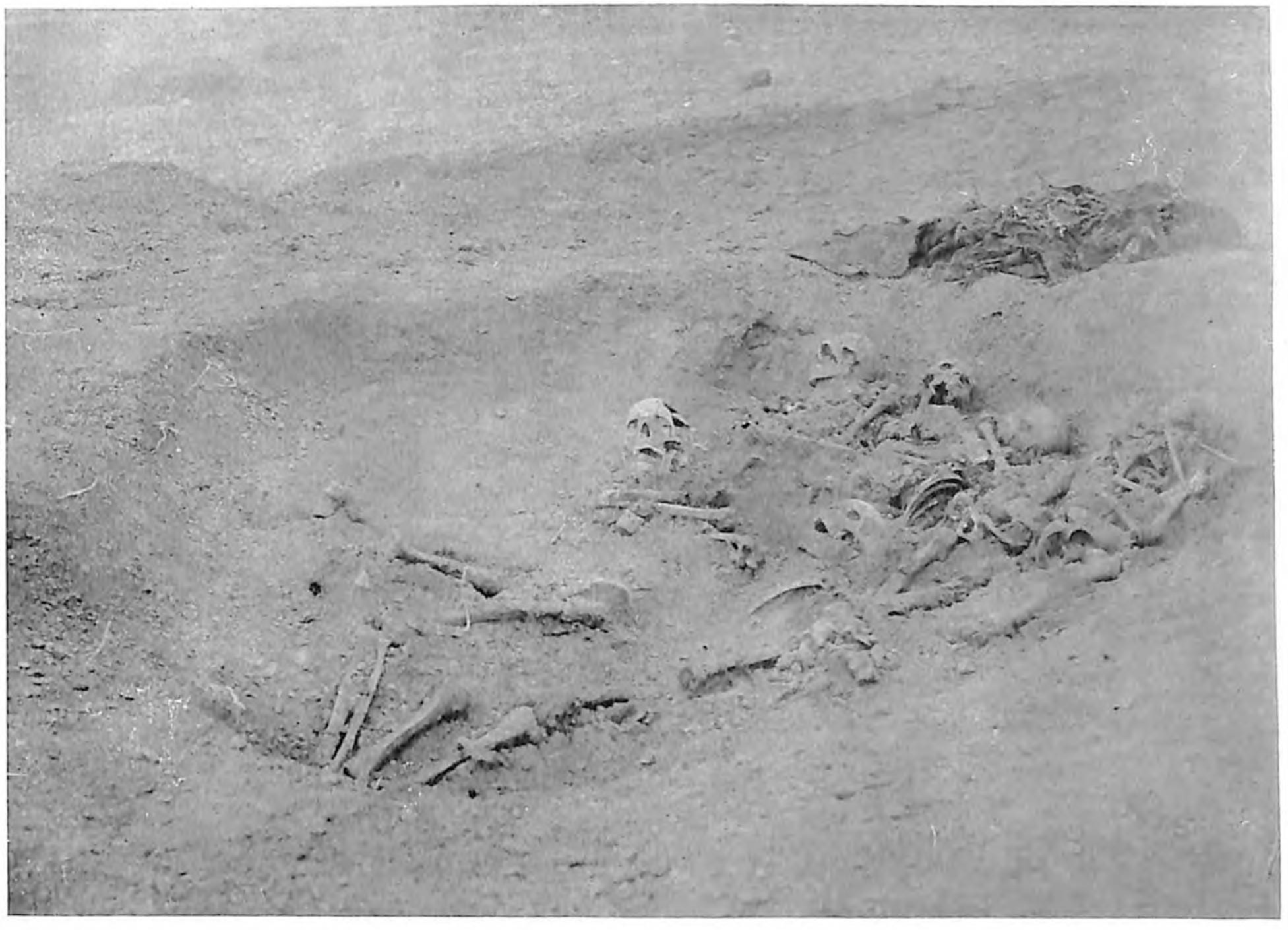 Remains of sick Serbian soldiers taken from the Štip hospital, and executed by the Bulgarian army outside of Ljuboten (26 October 1915).